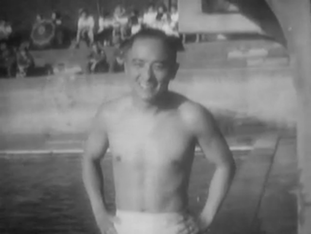 Olympic Diver Sammy Lee giving a diving exhibition in 1951.